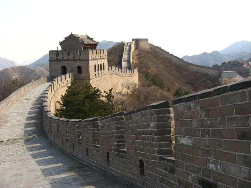 A view of the Great Wall of China